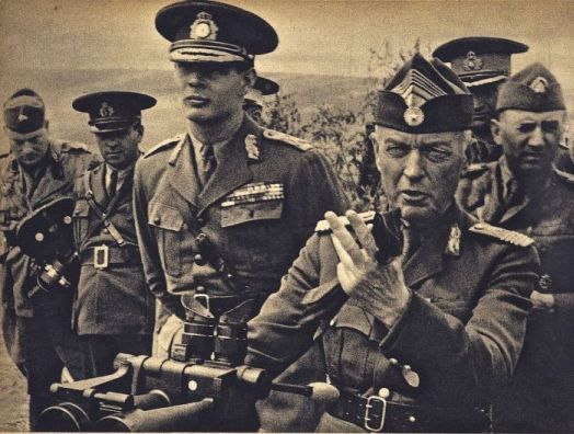 King Michael of Romania and the head of Romanian Army - Gen. Ion Antonescu - at the border of river Prut watching through a military binocular Carl Zeiss the deployment of army.